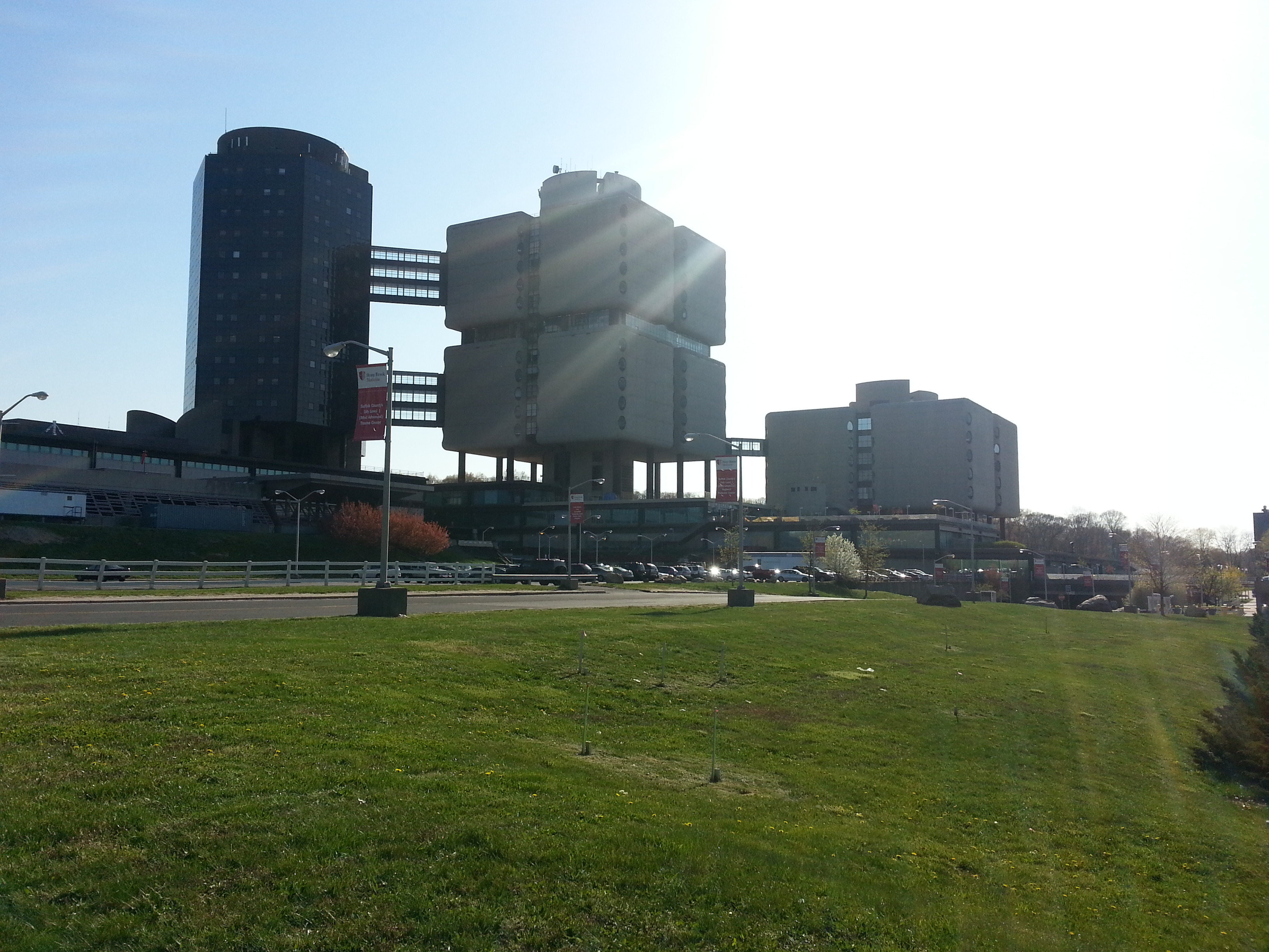 The Health Science Center (right) and Stony Brook University Hospital (left) at the East Campus of Stony Brook University.